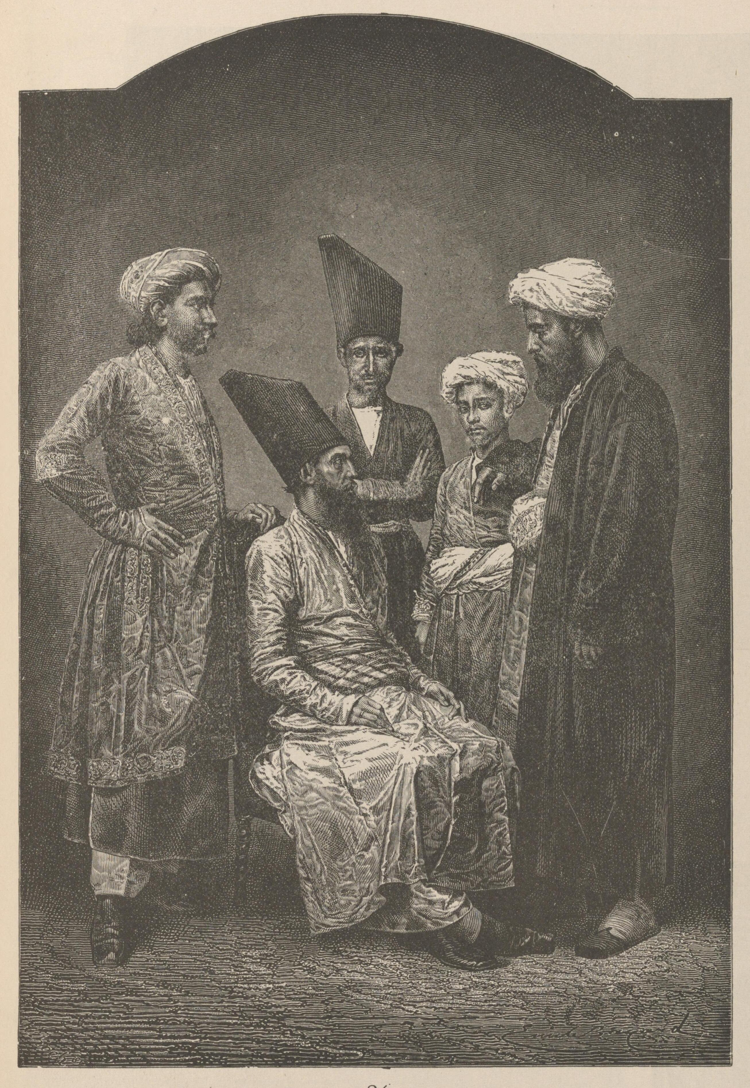 Parsees of Bombay a wood engraving, 1878 The inscription under the original engraving is "Persians in Bombay" Drawing by Emile Antoine Bayard (1837-1891) taken from "Travels in southern provinces of India, 1862-1864", by Alfred Grandidier (1836-1921), from "Il Giro del mondo (World Tour), Journal of geography, travel and costumes", Volume XVIII, Issue 24, 11 December 1873.